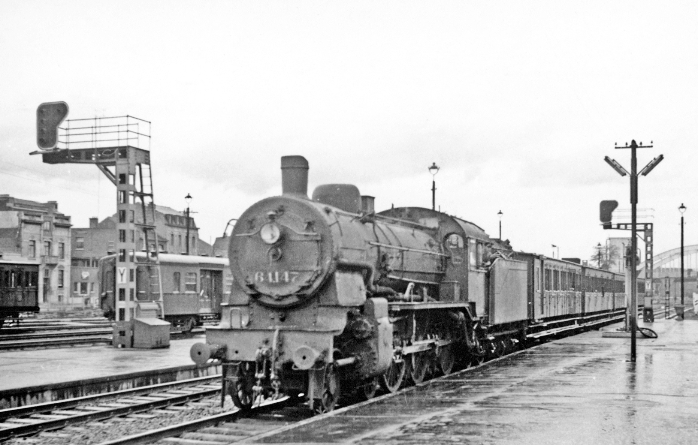 Eastbound local train entering Charleroi Sud station, Class 64 Prussian-type 4-6-0 (built 1906).